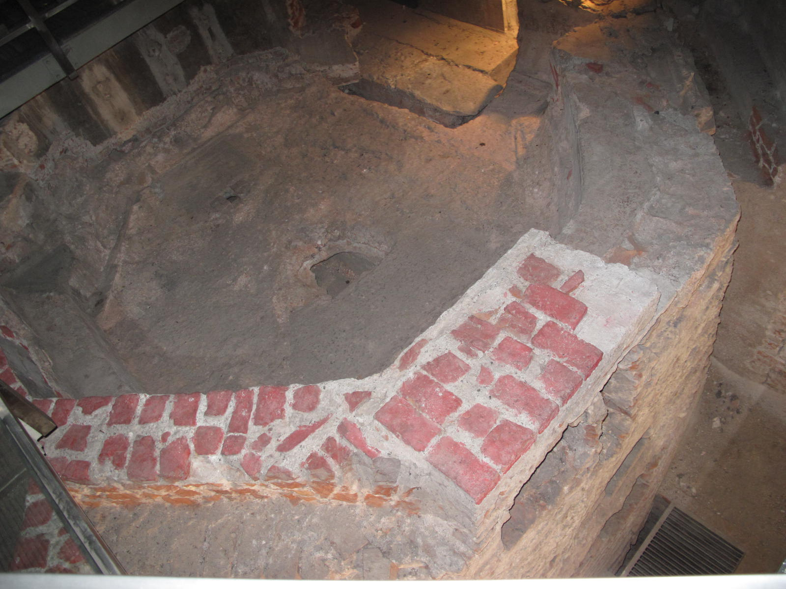 Ruins of the Baptistery of Santo Stefano under the northern sacristy of the Cathedral of Milan.